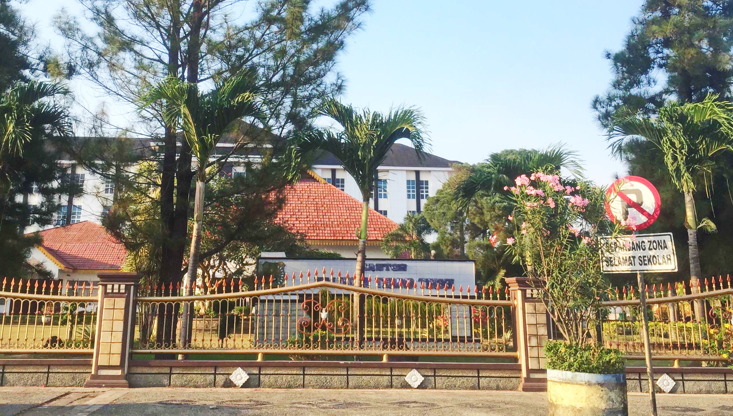 Mayor office of Tebing Tinggi, Sumatra Utara